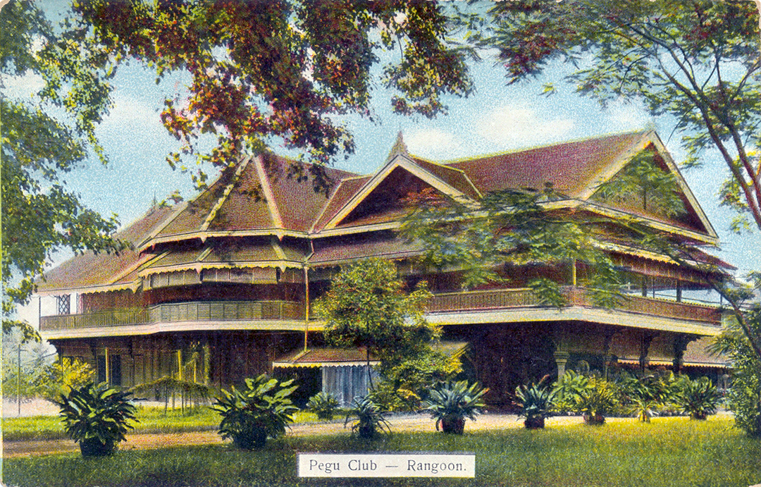 Postcard of Pegu Club on Kemmendine Road in Rangoon (now Yangon). The Pegu Club was established during the British colonial rule. When the British Empire expanded, the colonists brought more than a slice of their culture to the areas they conquered. The Pegu Club of the former capital Rangoon was set up to offer British people a relaxing environment, far from home and the people they ruled. The Pegu Club is said to have inspired a drink, the Pegu Club Cocktail (recipe in link below), based on the perennial colonial favorites: gin and Rose's Lime Juice. The British may have left, but the drinks often remain as staples in the clubs for the new members.